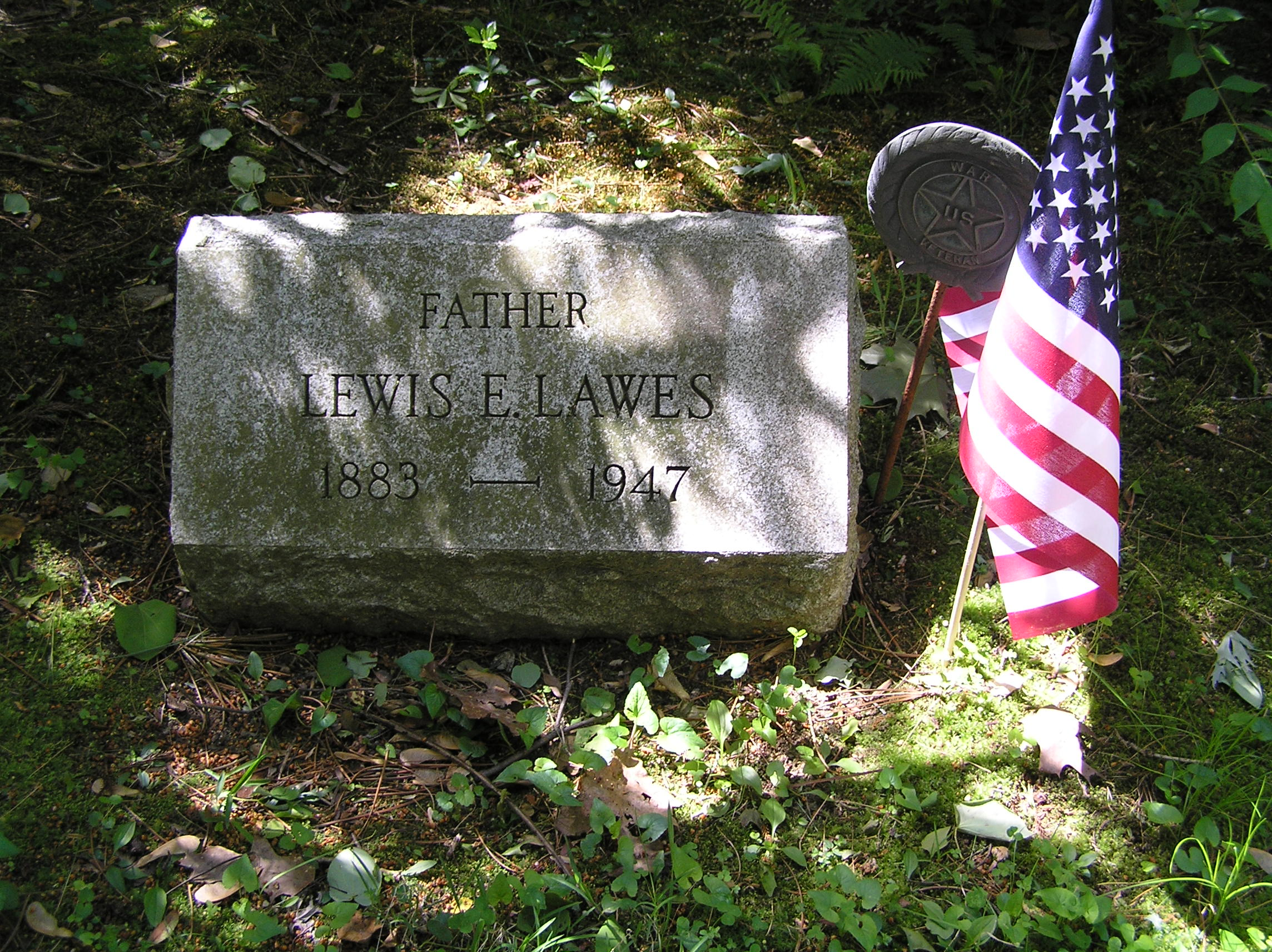 The gravesite of Lewis E. Lawes in Sleepy Hollow Cemetery